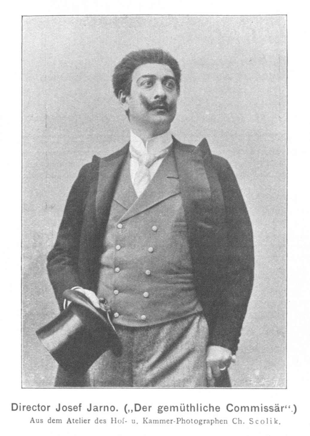 Portrait of Josef Jarno (1866-1923), Austrian actor and theater director, playing a role in "Der gemütliche Commissär" (The Relaxed Commissioner).